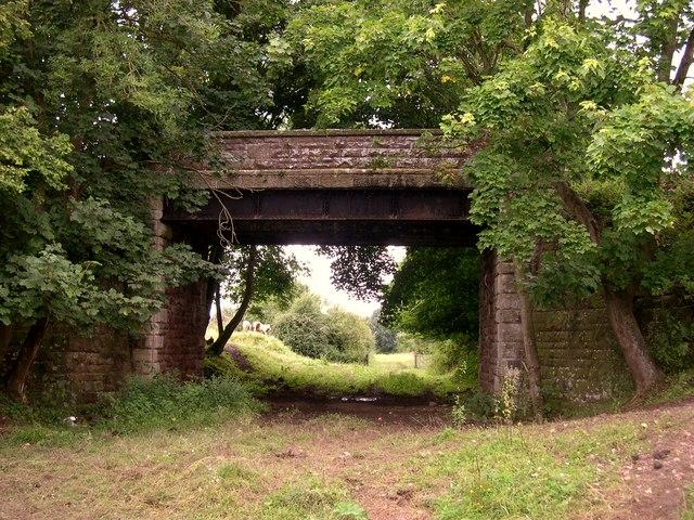 Road overbridge, GWR Gloucester - Ledbury railway